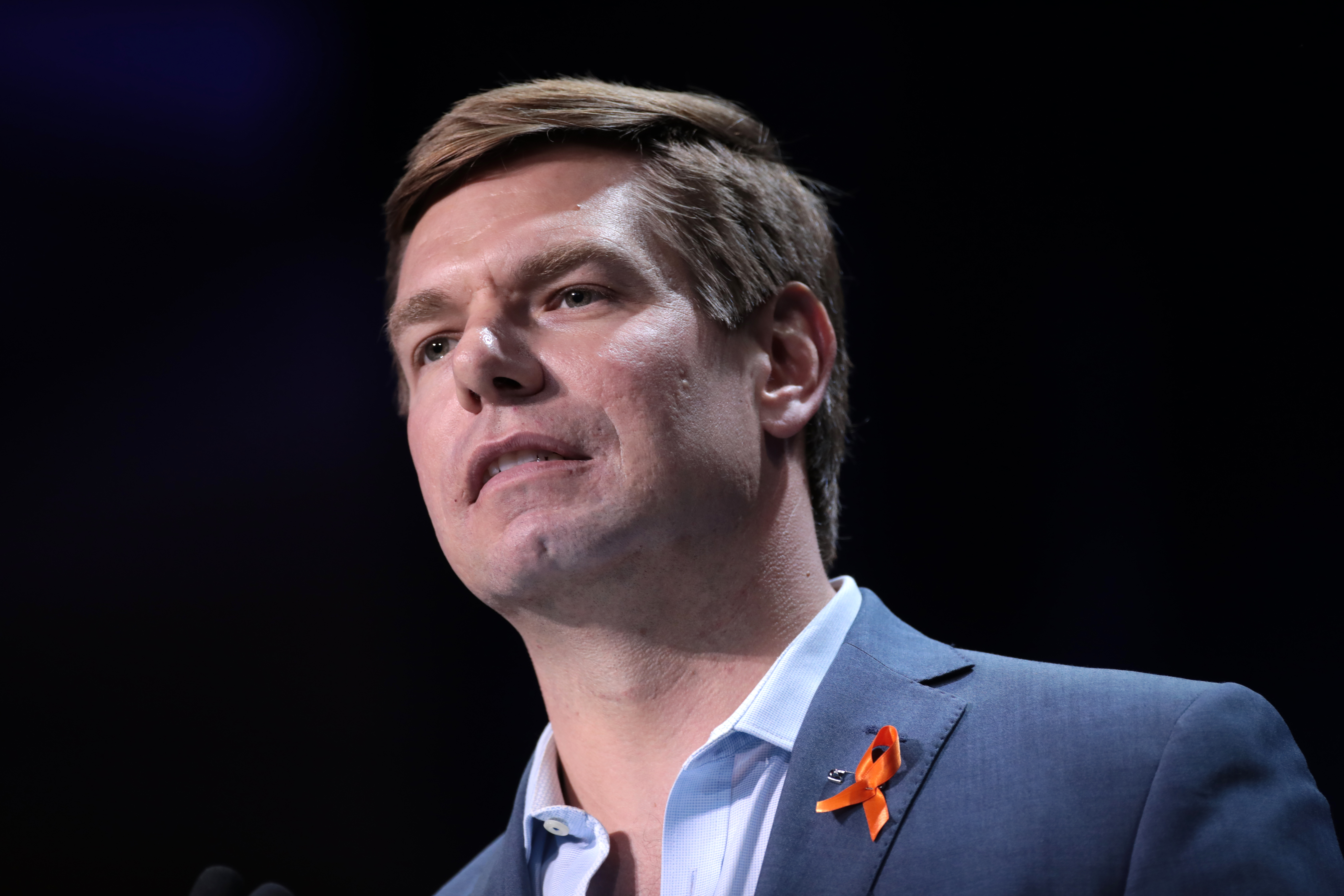 U.S. Congressman Eric Swalwell speaking with attendees at the 2019 California Democratic Party State Convention at the George R. Moscone Convention Center in San Francisco, California.